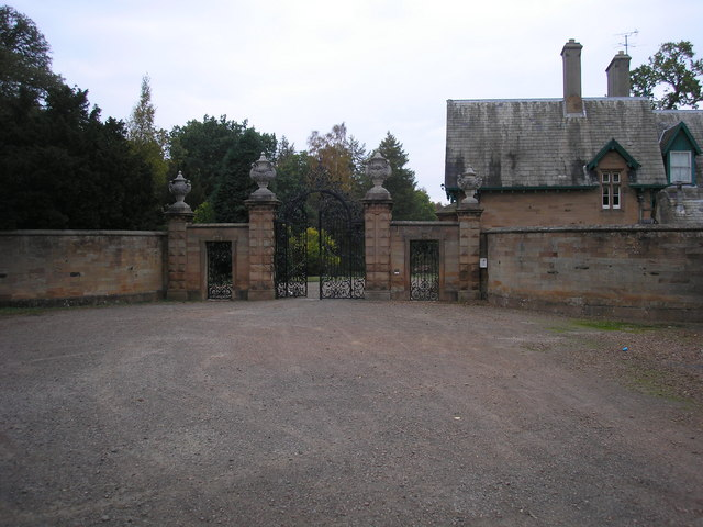 King's Gate entrance to Dalkeith Park The view of the King's Gate entrance to Dalkeith Park. The gatehouse is on the right.